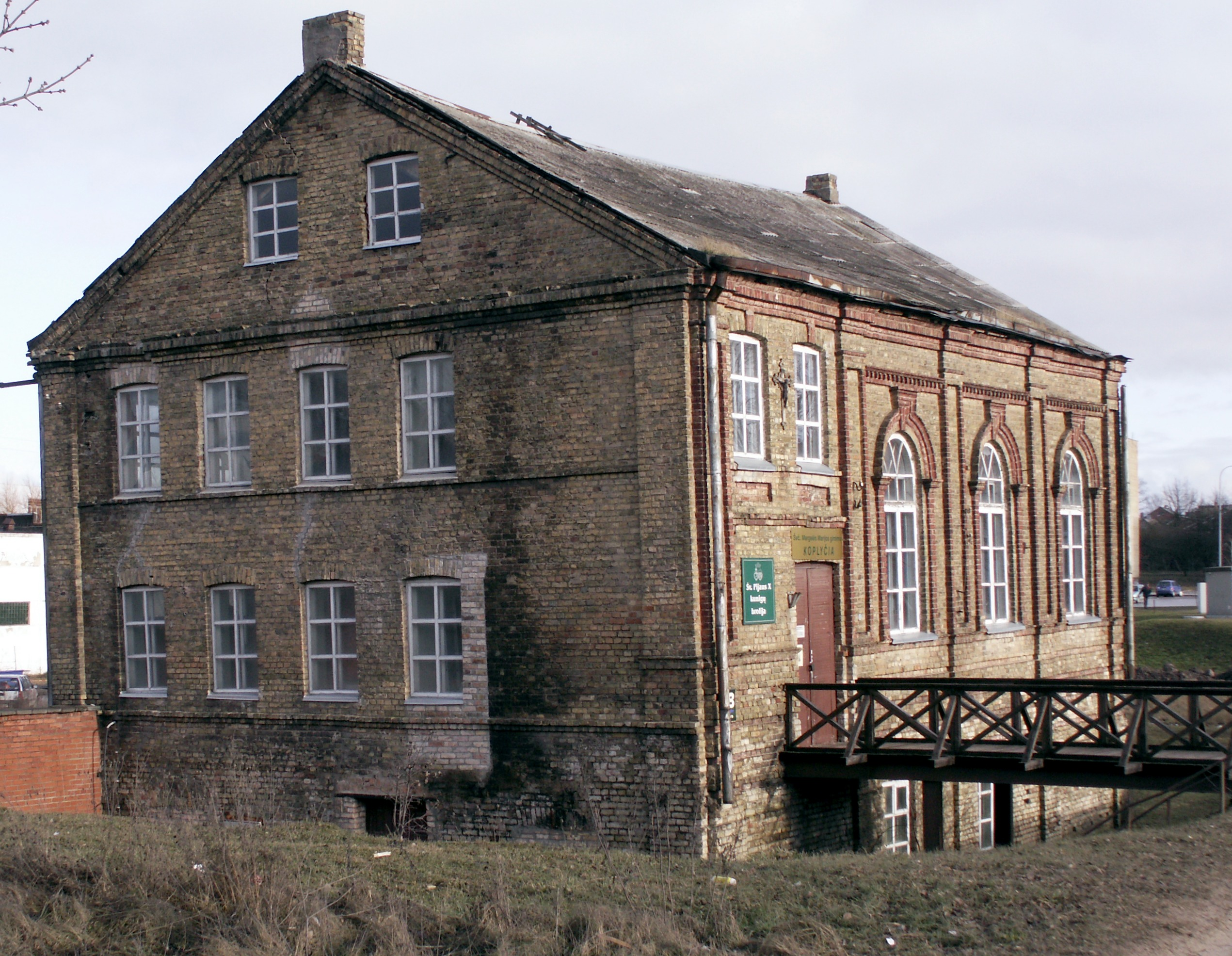 Sinagogue of Chaimas Frenkelis tannery in Šiauliai